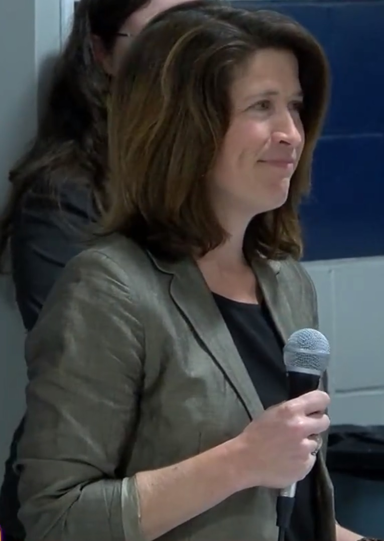 The Progressive Party convenes to nominate candidates for Burlington, Vermont's upcoming city official elections in March 2018. Carina Driscoll stands for nomination.